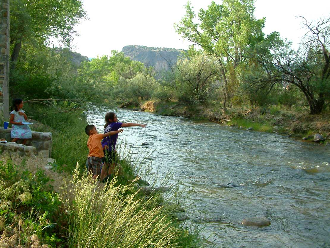 The Embudo River — in Rio Arriba County, New Mexico.